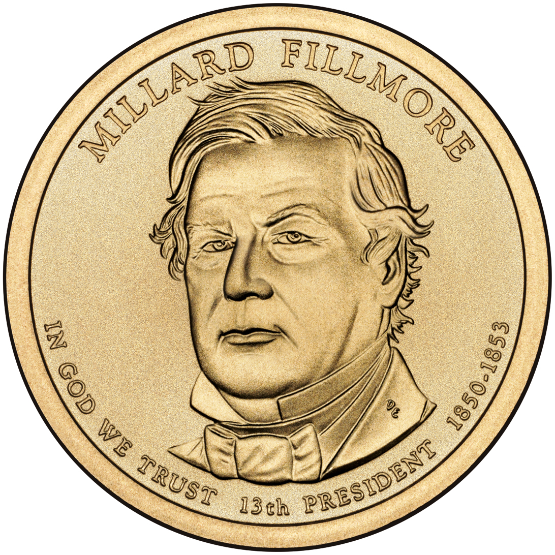 Presidential $1 Coin Program coin for Millard Fillmore. Obverse.